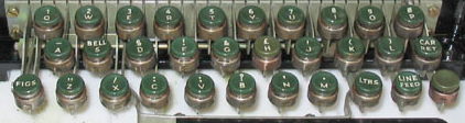 Keyboard of Teletype Model 15, Communications character set, 1944